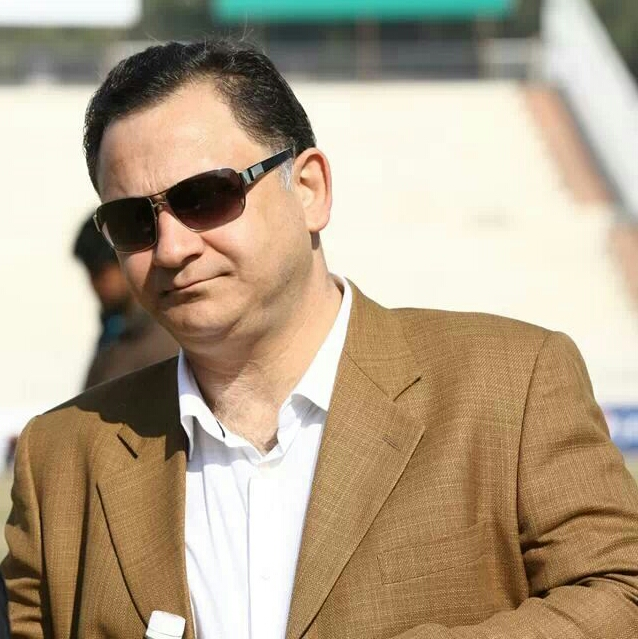 Dr. Nauman Niaz during the Faysal Bank T20 Tournament 2014